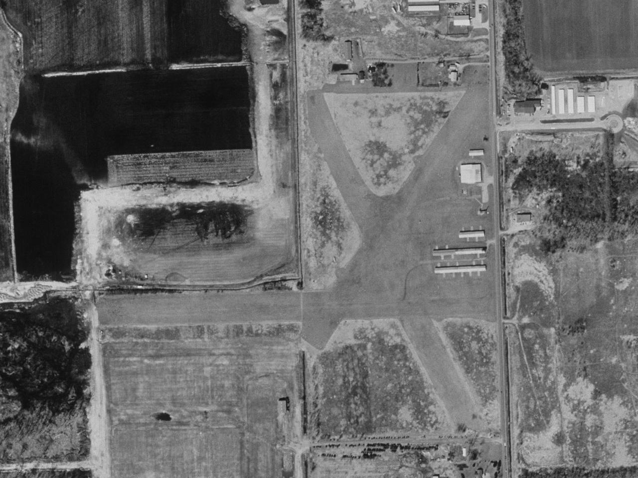 USGS orthophoto of Davis Airport (2D8) in DeWitt Township, Michigan (north of East Lansing). Airport closed on May 5, 2000.